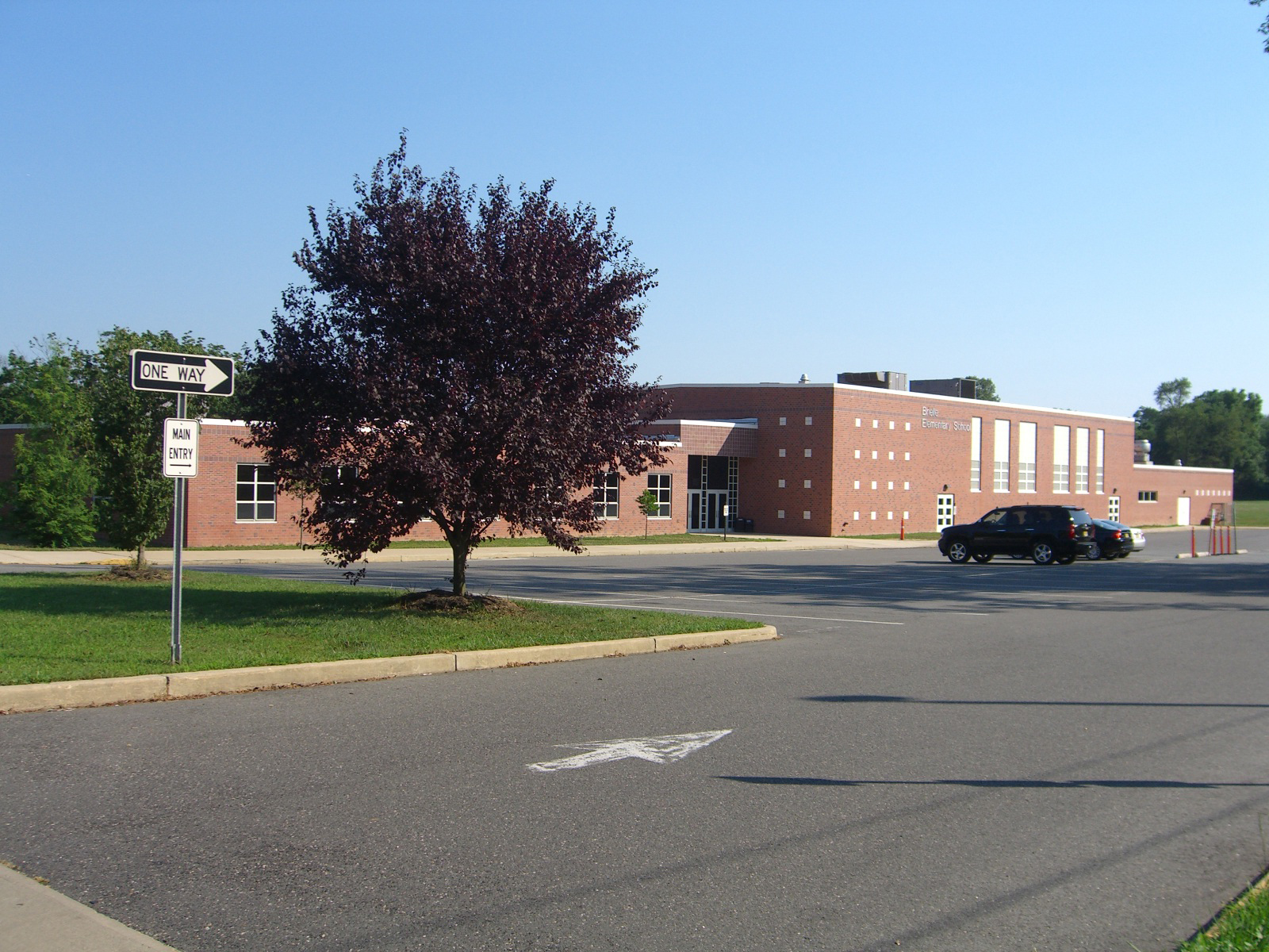 Brielle Elementary School on Union Lane in Brielle, New Jersey.